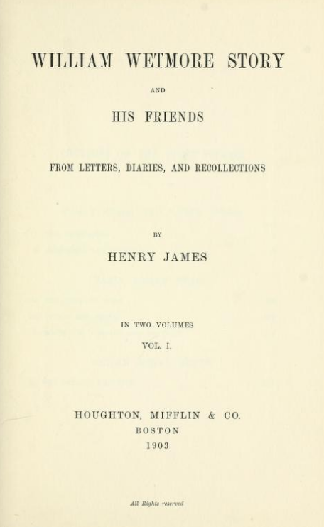 Title page of the first volume of Henry James' William Wetmore Story and His Friends, taken from the first edition, published in Boston in 1903.